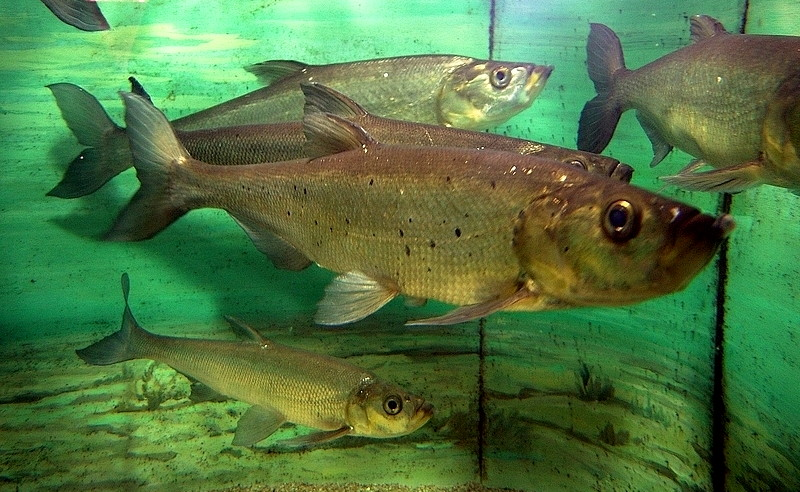 Predatory carp (Culter erythropterus)